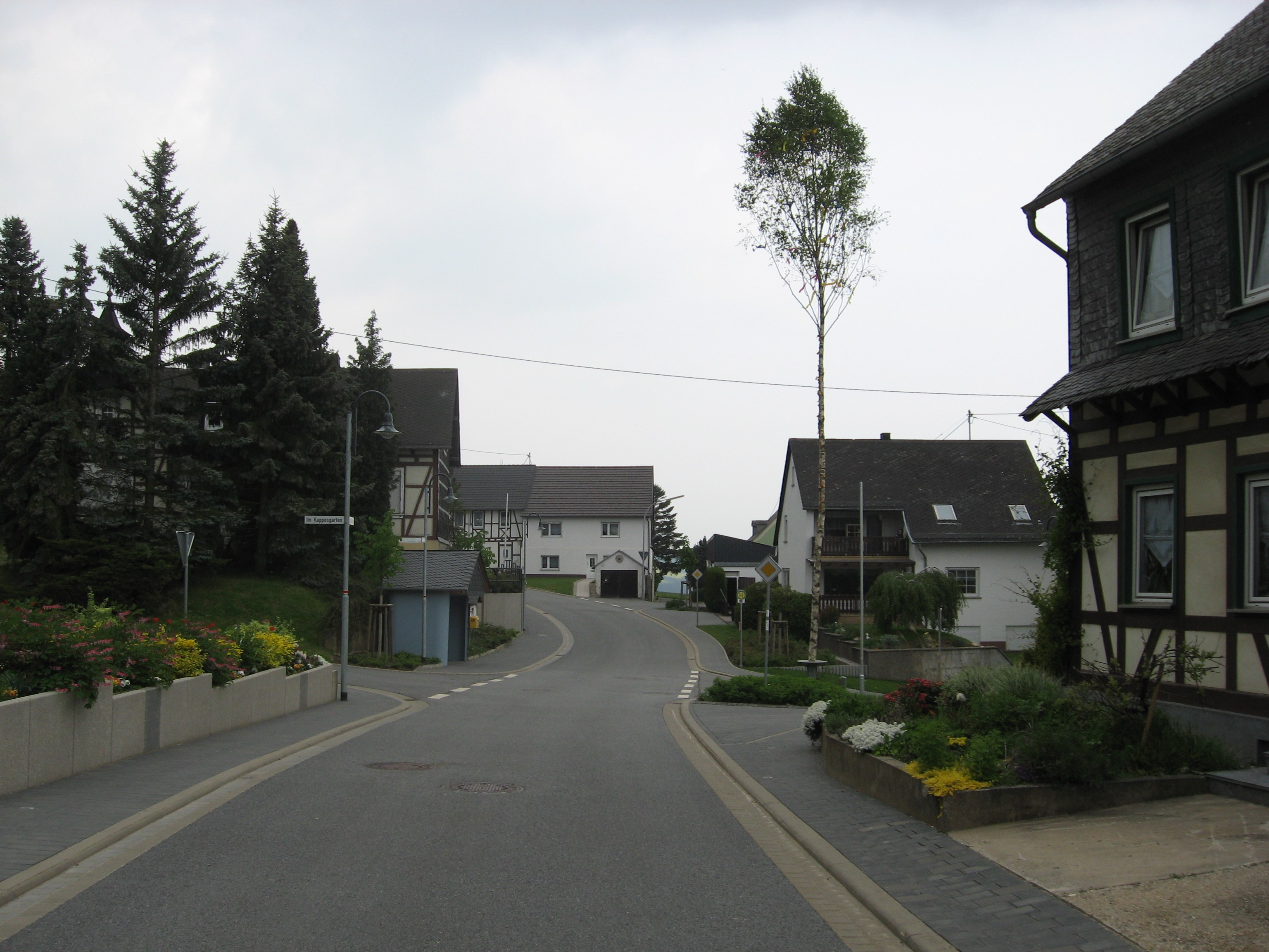 Centrum of the village Hecken in the Hunsrück landscape, Germany.